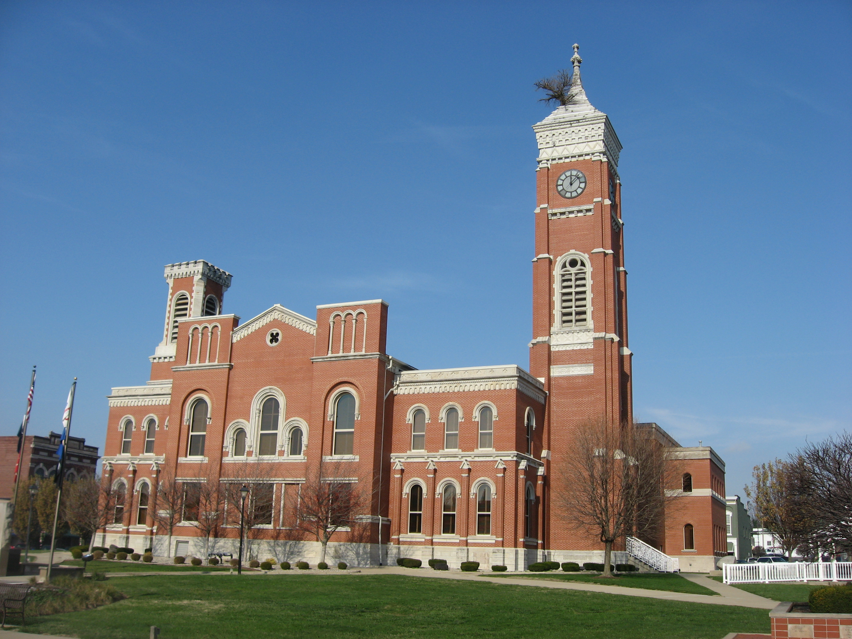 Front and eastern side of the Decatur County Courthouse, located on Courthouse Square in Greensburg, Indiana, United States. Built in 1854, it is listed on the National Register of Historic Places, and it is part of a Register-listed historic district, the Greensburg Downtown Historic District.